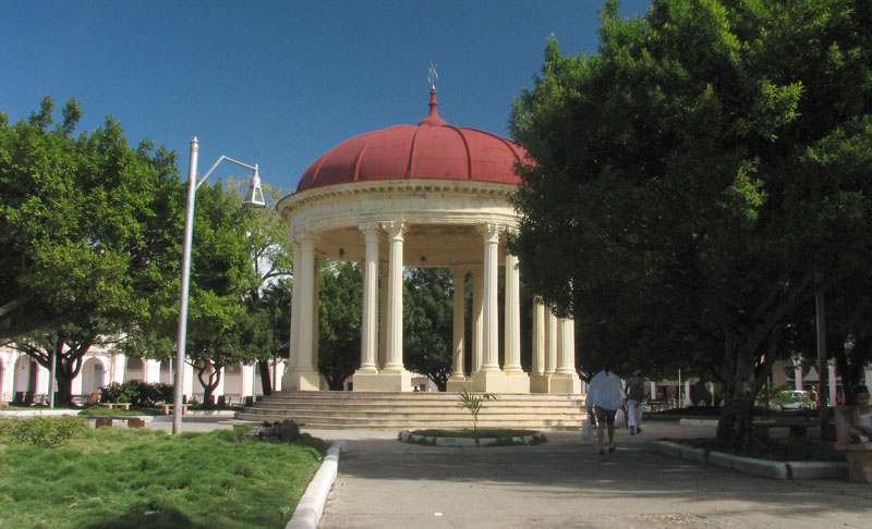 Libertad Park gazebo in Caibarien (Glorieta del parque La libertad, Caibarién)